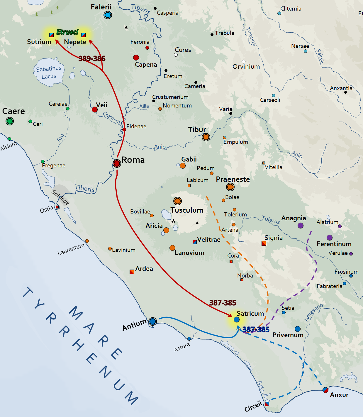 See File:Carte GuerresRomanoVolsques 389avJC.png for the broad map.